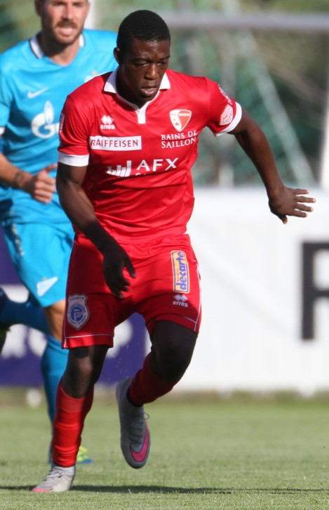 Geoffrey Mujangi Bia